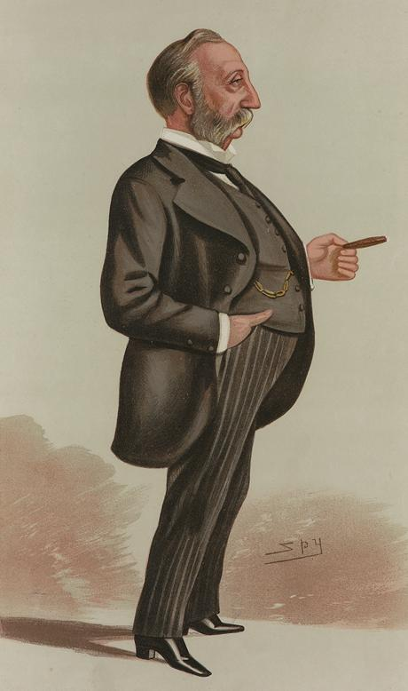 Men of the Day No.389: Caricature of Alderman Rt Hon Polydore de Keyser. Caption reads: "the Lord mayor"